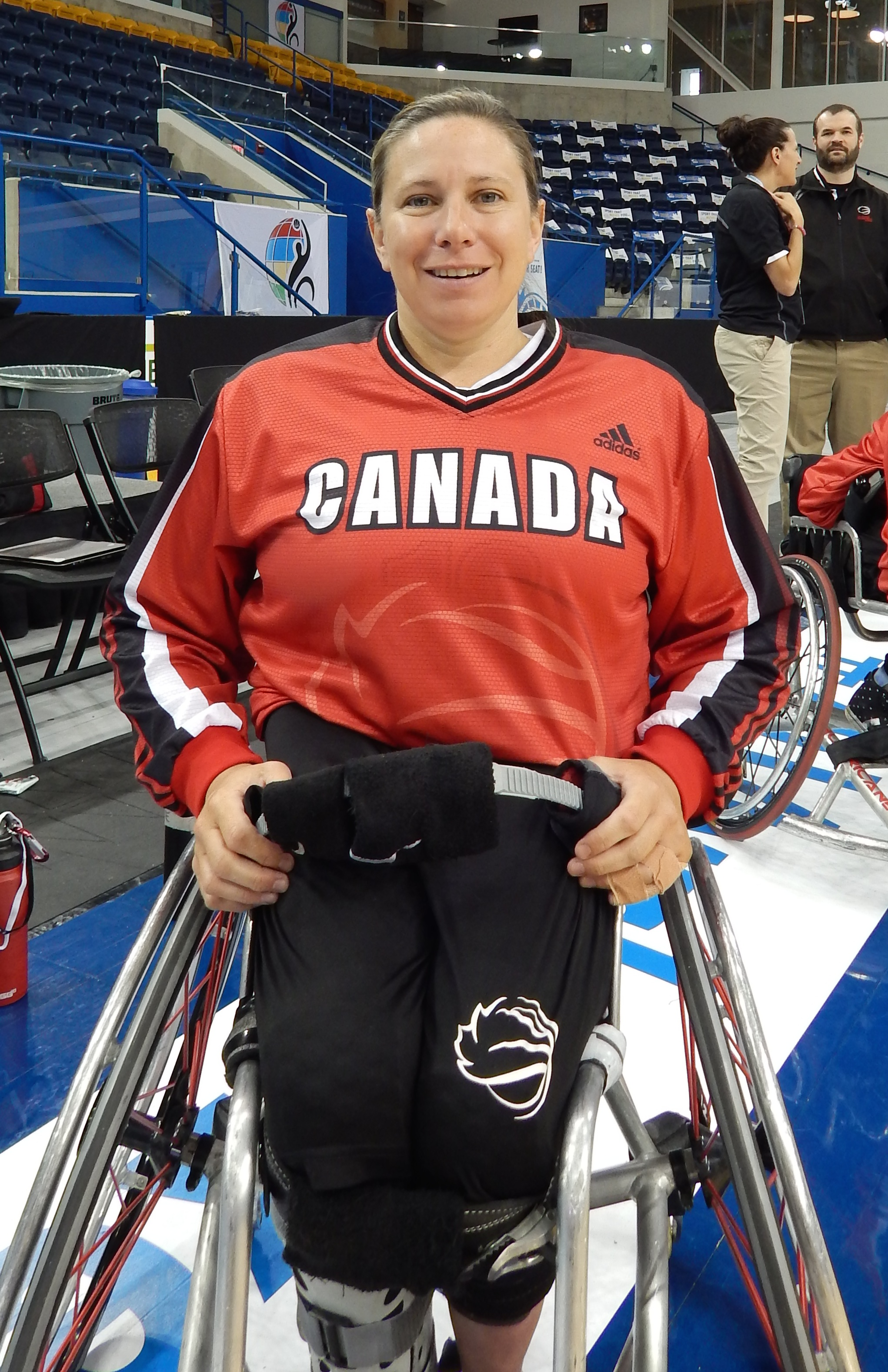 Team Canada - No 12 - Tracey Ferguson